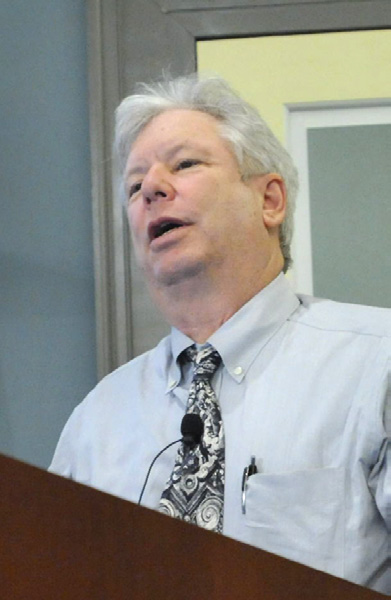 American economist and professor Richard Thaler.